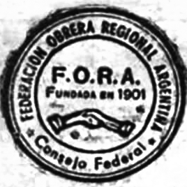 Stamp of the FORA